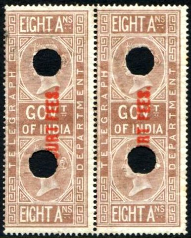 India 1870 Court Fees overprinted on used pair of 8a Telegraph stamp.